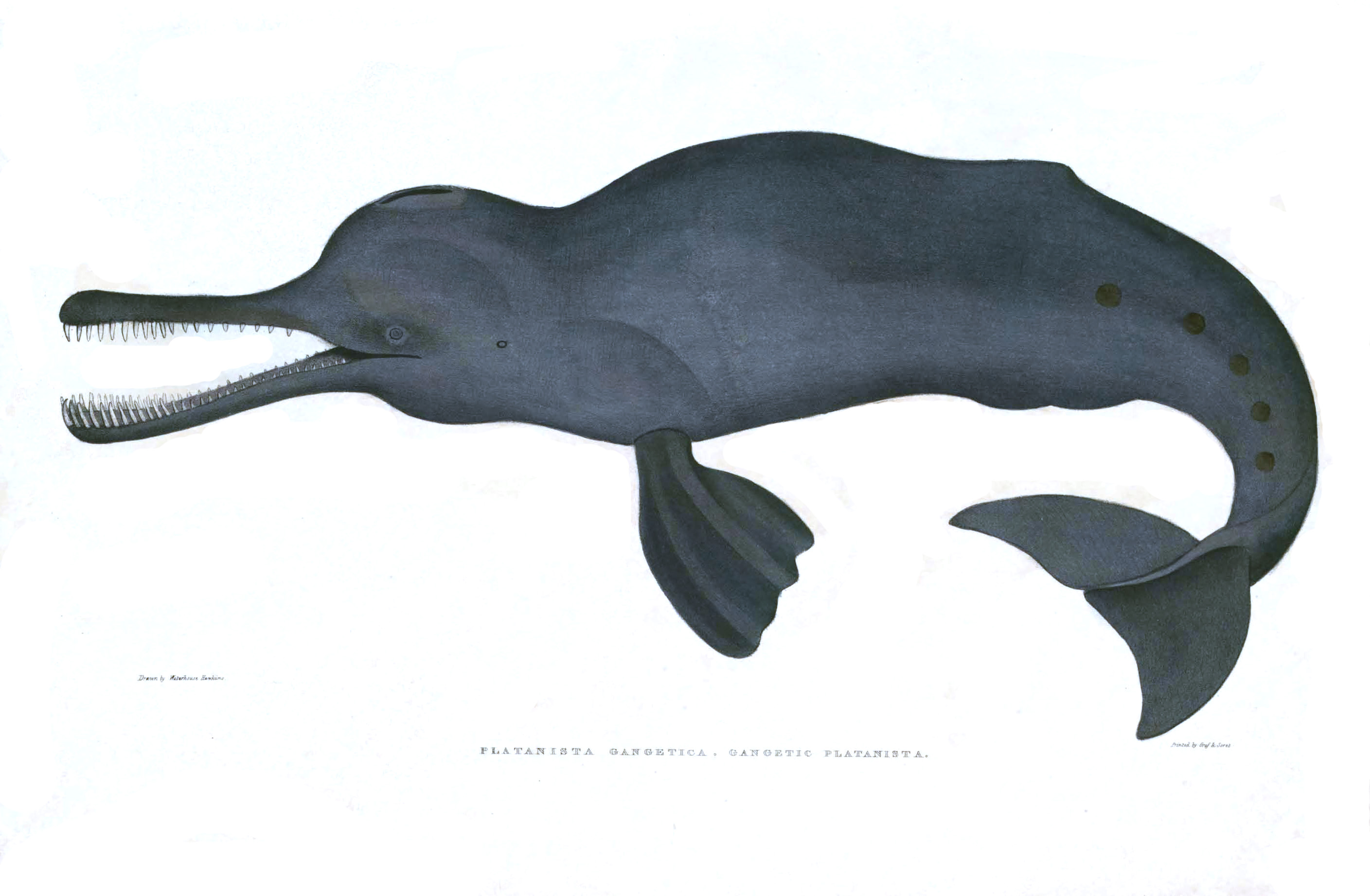 « Platanista gangetica » = Platanista gangetica (Ganges river dolphin)